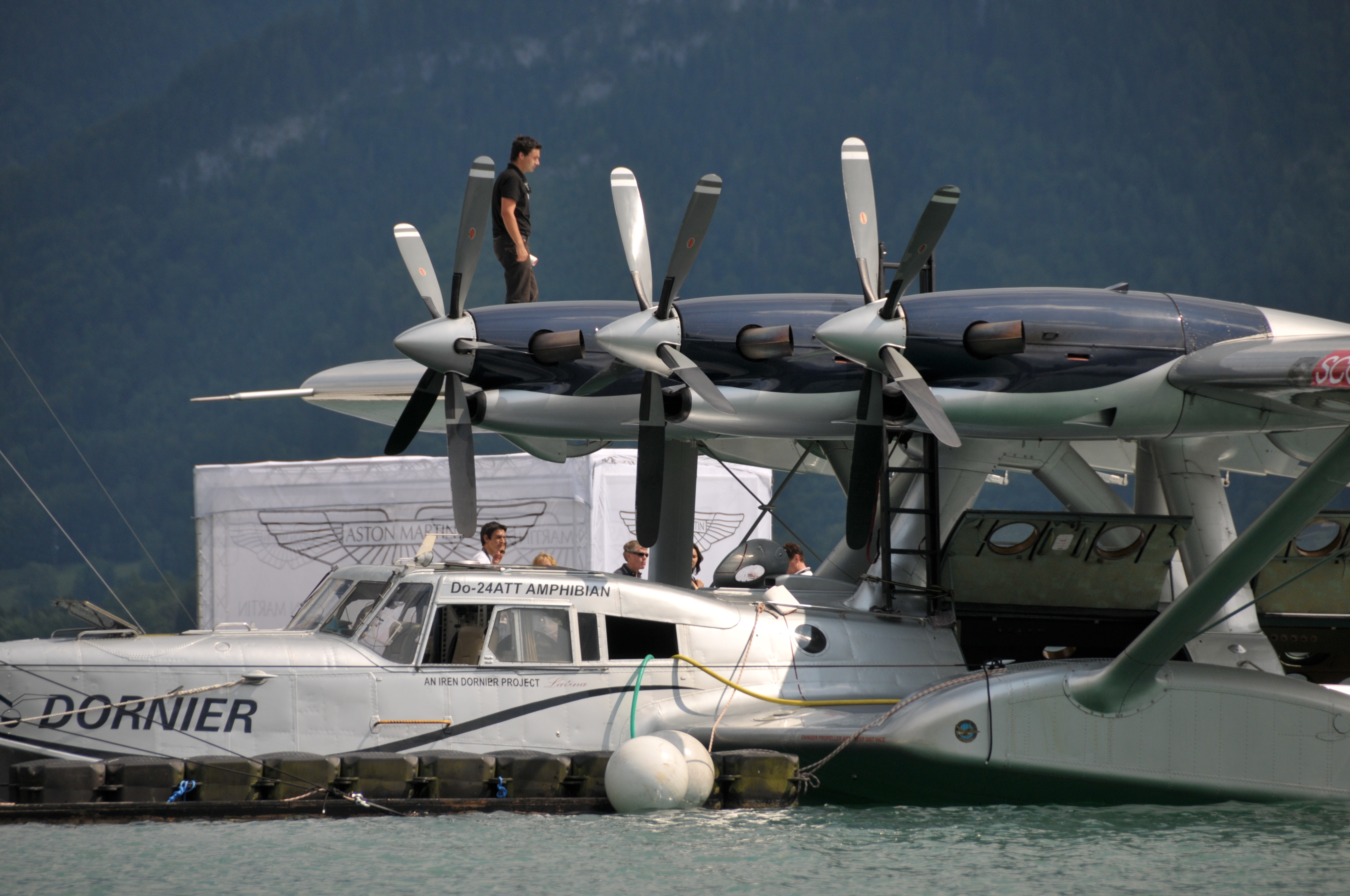 Dornier Do 24 ATT at the Scalaria Air Challenge 2008